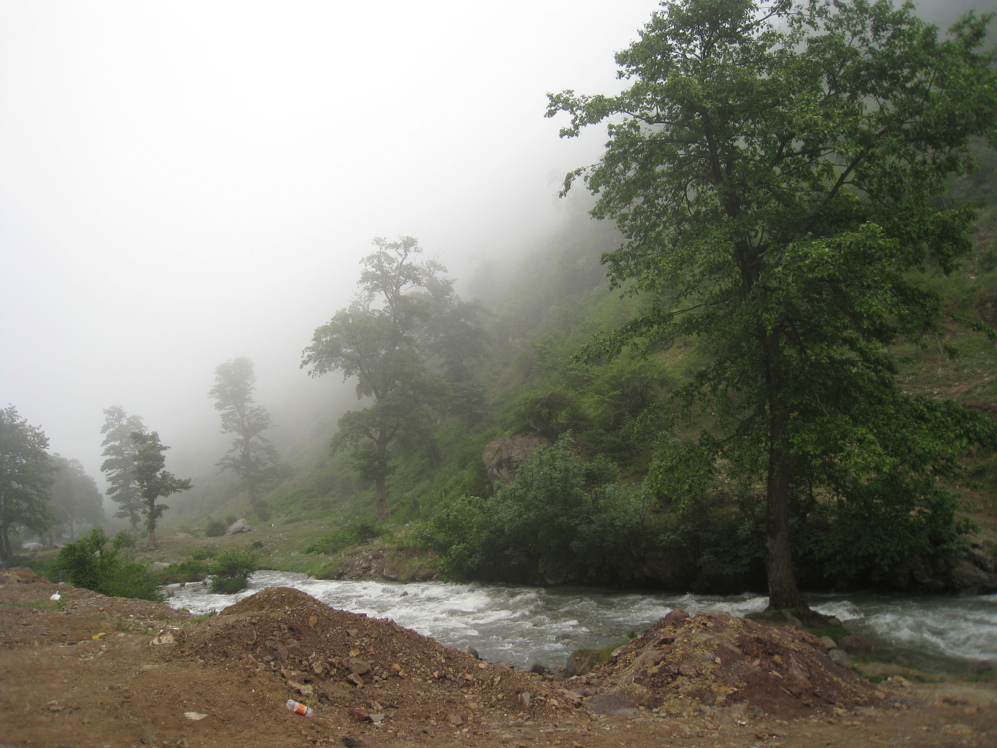 Kelardasht- Mazandran - iran کلاردشت - مازندران - ایران